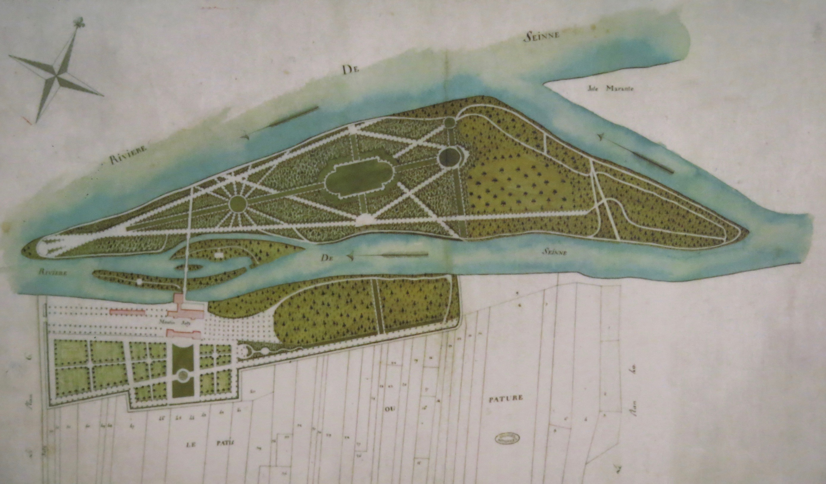 Map of the Moulin-Joly (=Pretty mill) in Colombes (Hauts-de-Seine, France).